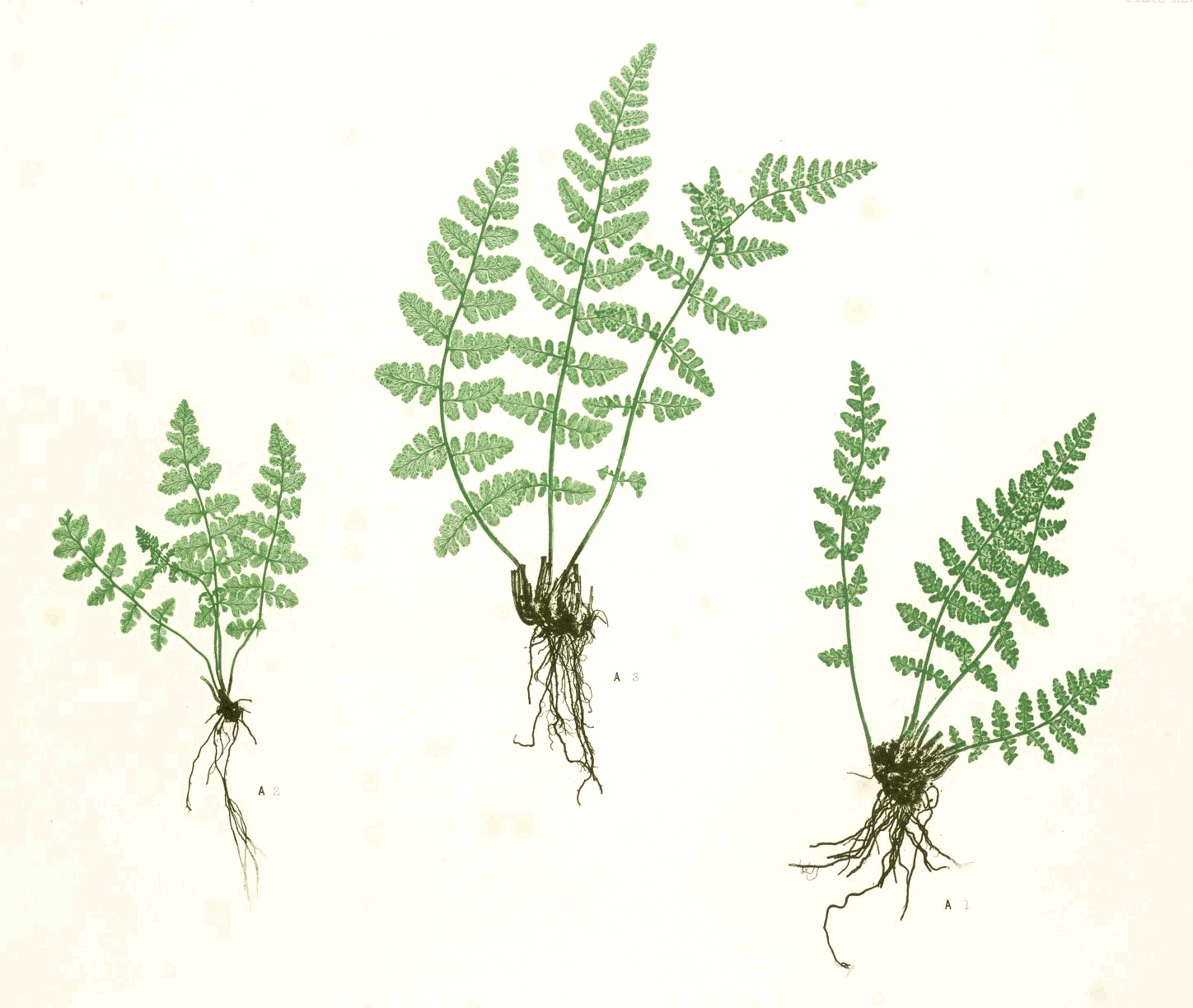 Plate from book